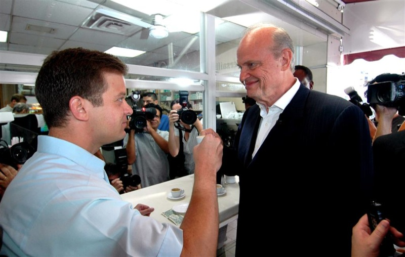 Fred with State Rep. Carlos Lopez-Cantera